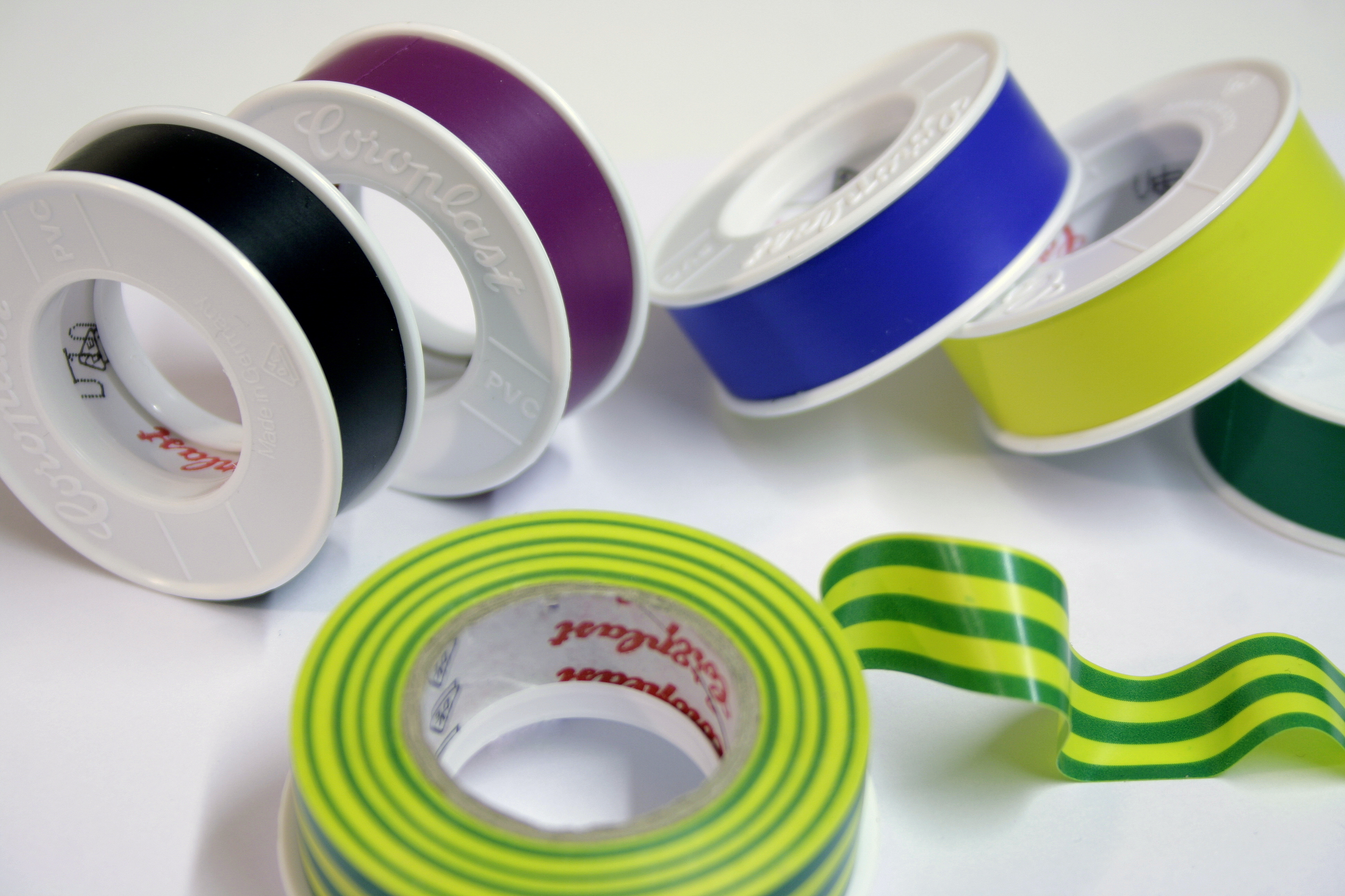 Electrical tape